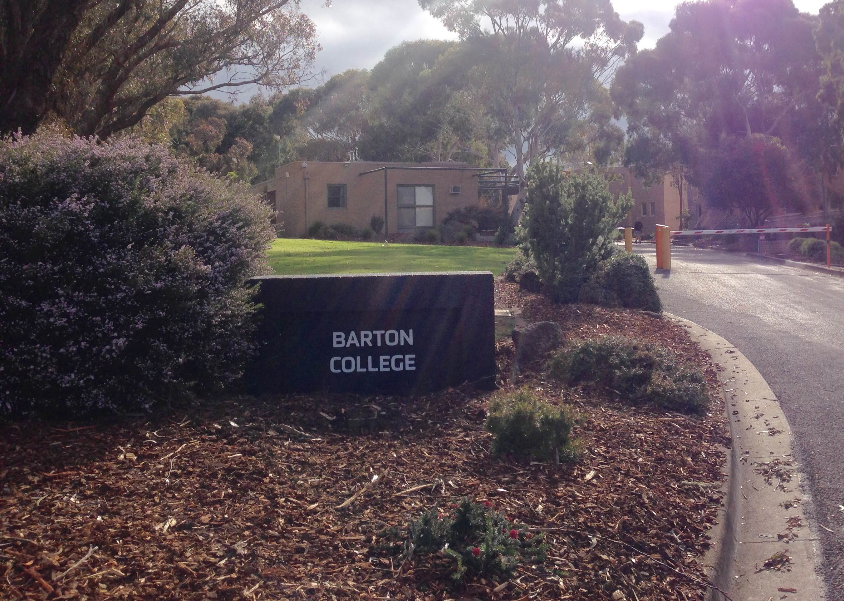 The new entrance sign to the Barton College of the Deakin University Residences in Waurn Ponds (2017).